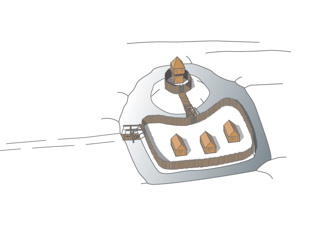 Reconstruction of the motte-and-bailey, a predecessor of the Obere Burg (literally: Upper Castle) in Euskirchen-Kuchenheim, North Rhine-Westphalia. The first castle, a motte-and-bailey, could have looked like this in 11th and 12th century. In front of the defense tower on a hill, a second well-secured 'island' is located for living and economic activities.